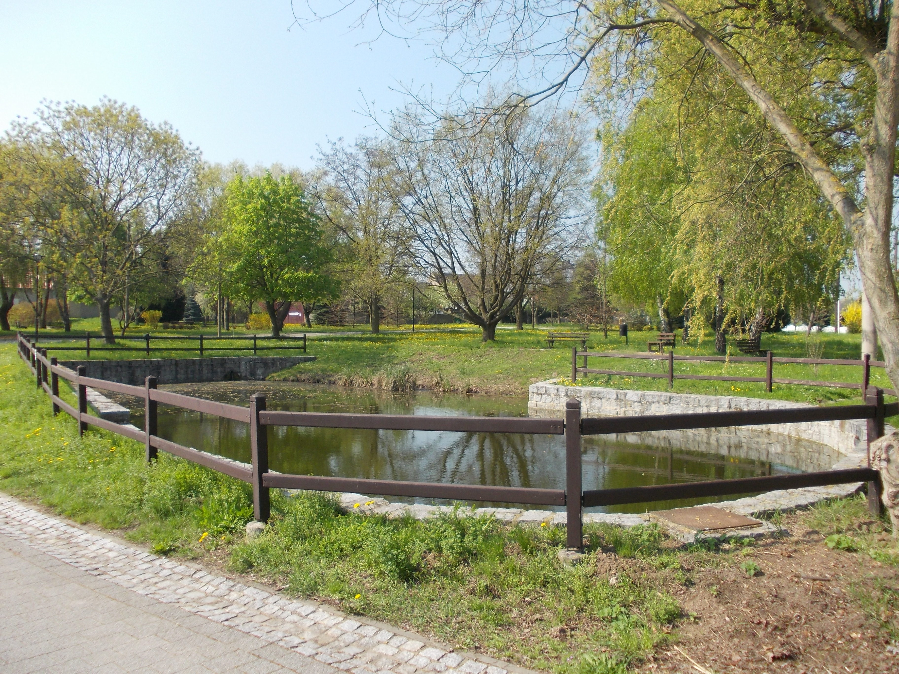 Pond in Kleben (Borau subdivision of the town of Weissenfels, district: Burgenlandkreis, Saxony-Anhalt)